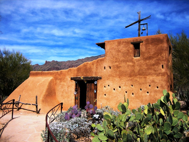 The chapel, located in Tucson, Arizona, was built in 1952 by Ettore (Ted) DeGrazia.